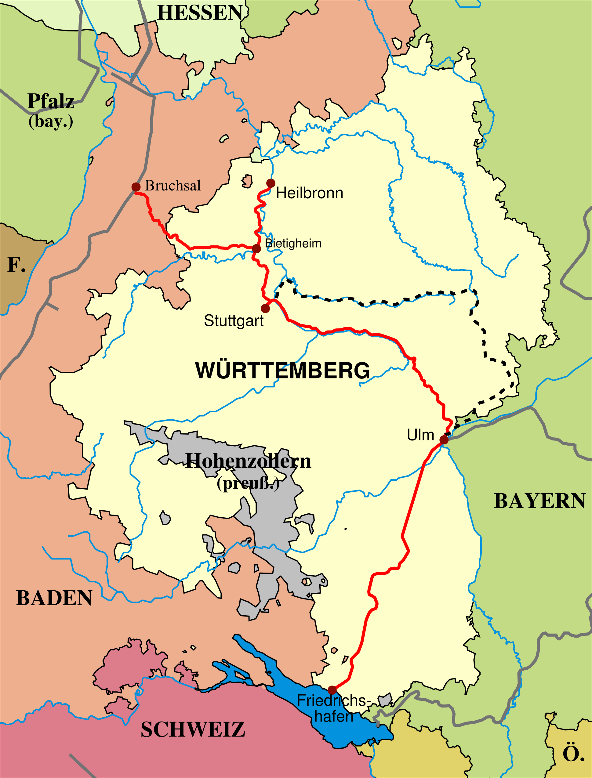 Railroad network of Württemberg as of 1854. Red: state railroads built until 1854; gray: railroads outside of Württemberg; dotted black: alternative track considered for the railroad between Stuttgart and Ulm.